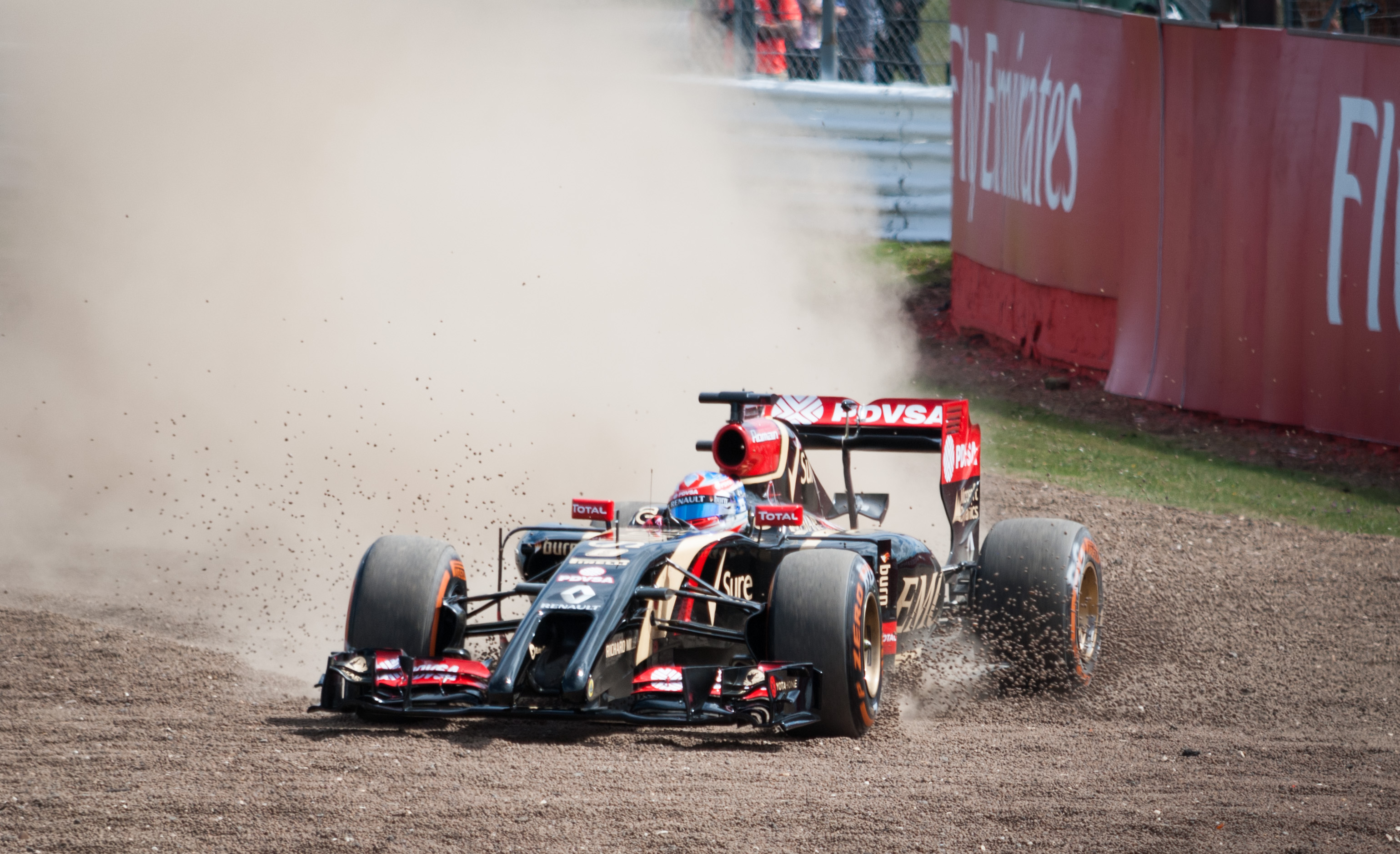 Romain Grosjean on the Lotus E22 at 2014 British Grand Prix